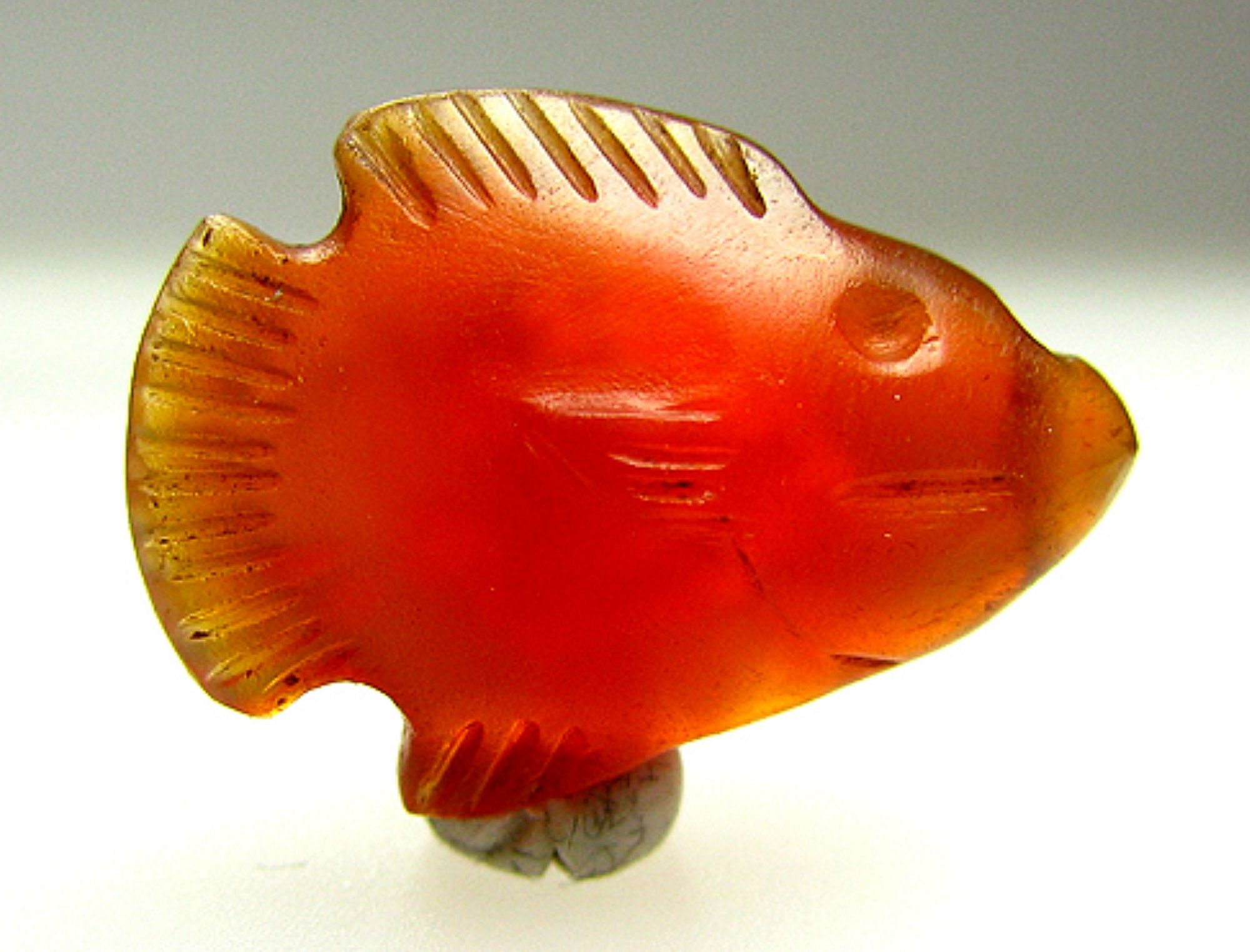 An Egyptian New Kingdom cornelian amulet of a Nile tilapia, late Dyn. XVIII, c. 1350/1320 BC